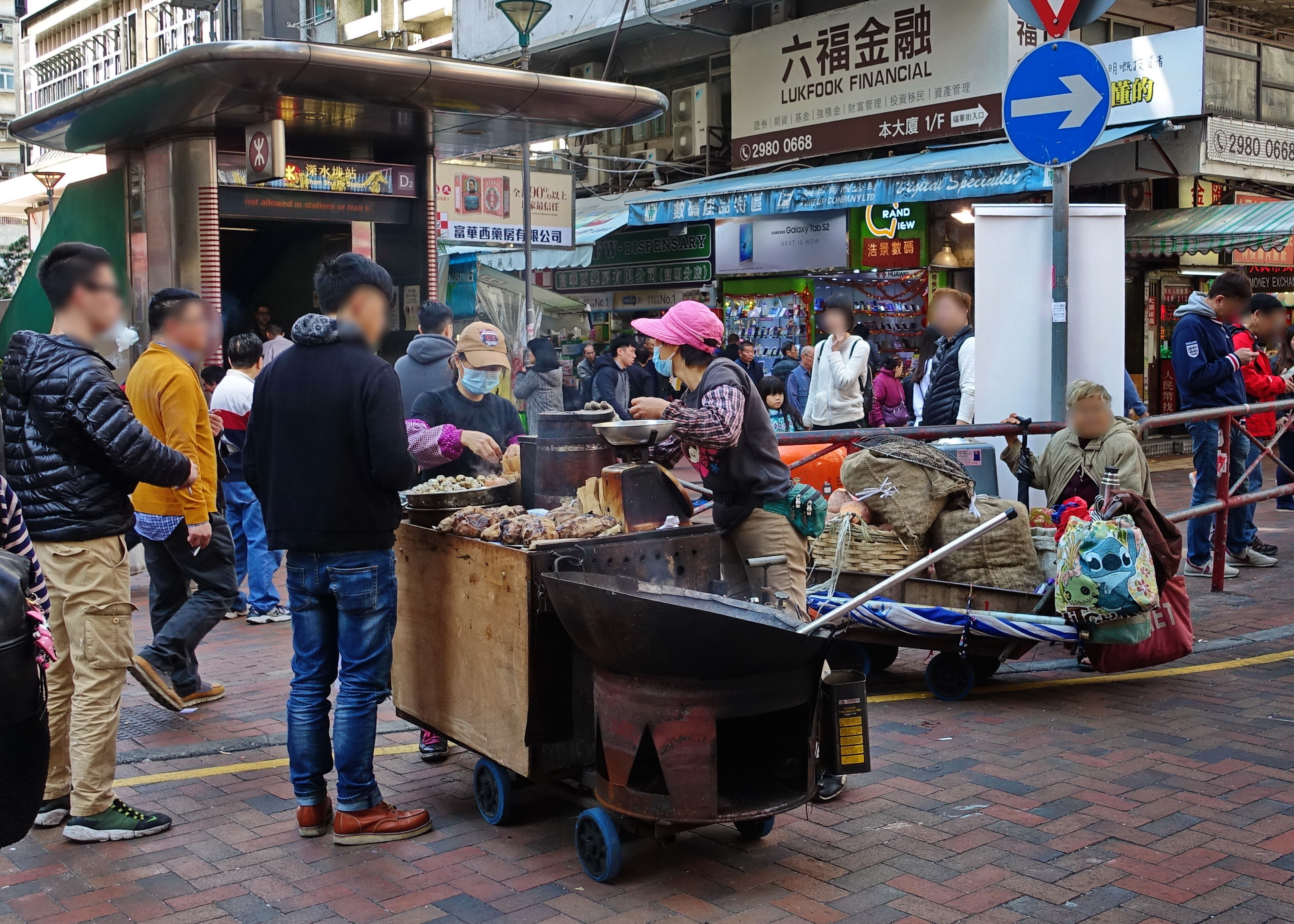 Roasted sweet potatoes and chestnuts hawkers, Hong Kong street food.